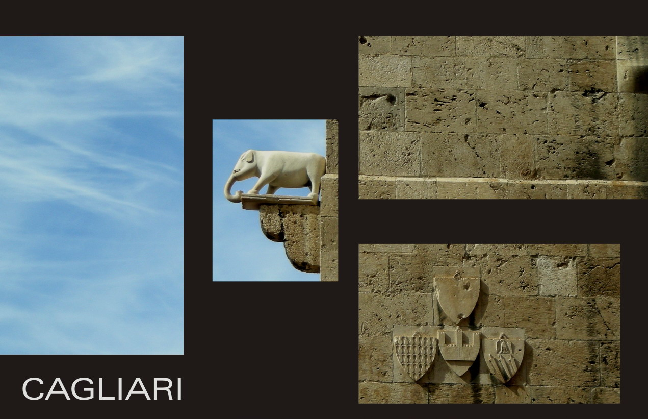 Coat of arms of Cagliaril